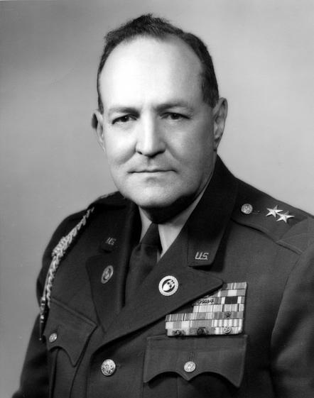 Official government photo of Major General Harry H. Vaughan